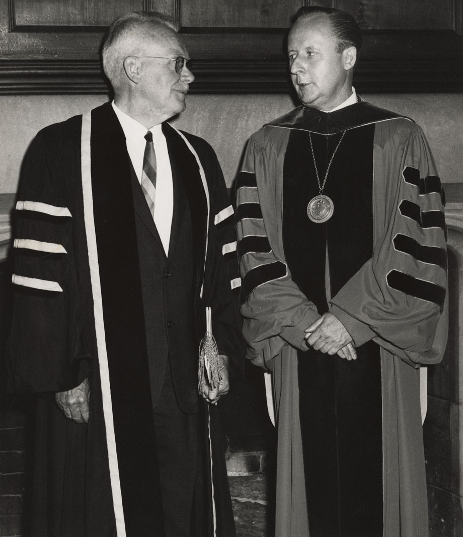 Carlyle Smith Beals (left) receiving a Doctorat Honoris Causa from Queen's University Dean in Kingston, Ontario, Canada.